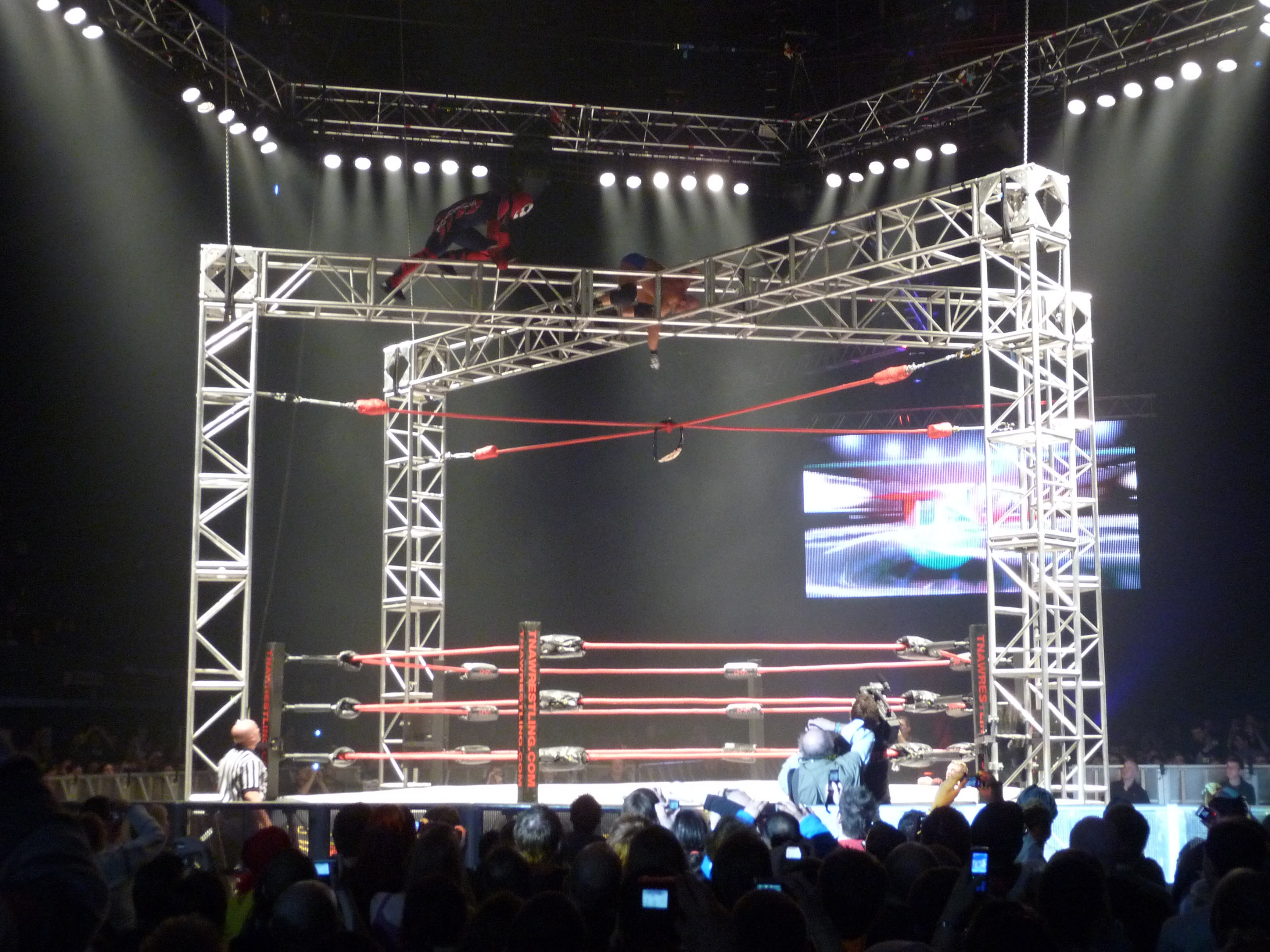 TNA X-division Title match